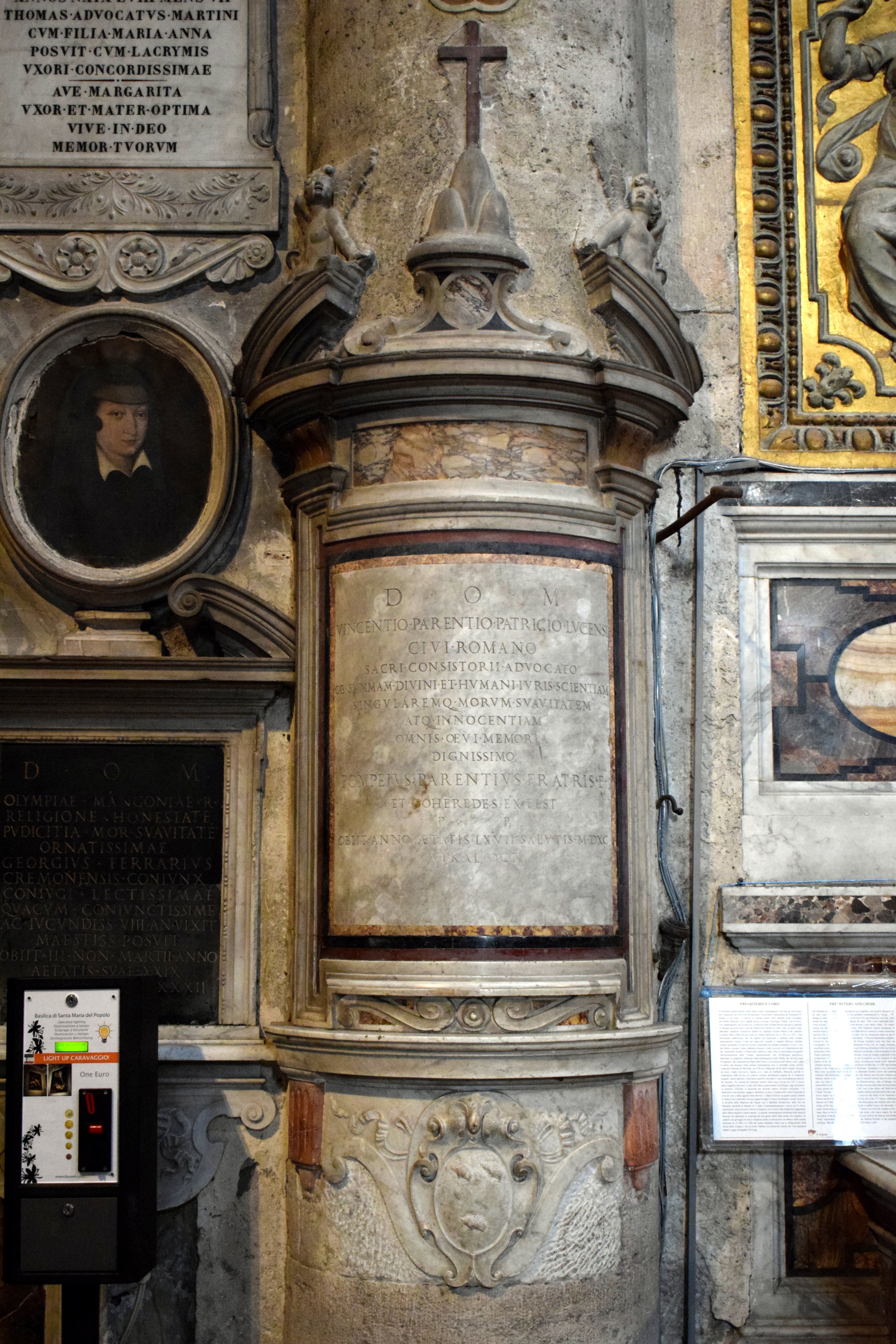 The funeral monument of Vincenzo Parenzi, consistorial advocate and a patrician of Lucca in the Basilica of Santa Maria del Popolo, Rome (in the area of the left transept). Created after his death (1590) by his heir, Pompeo Parenzi.